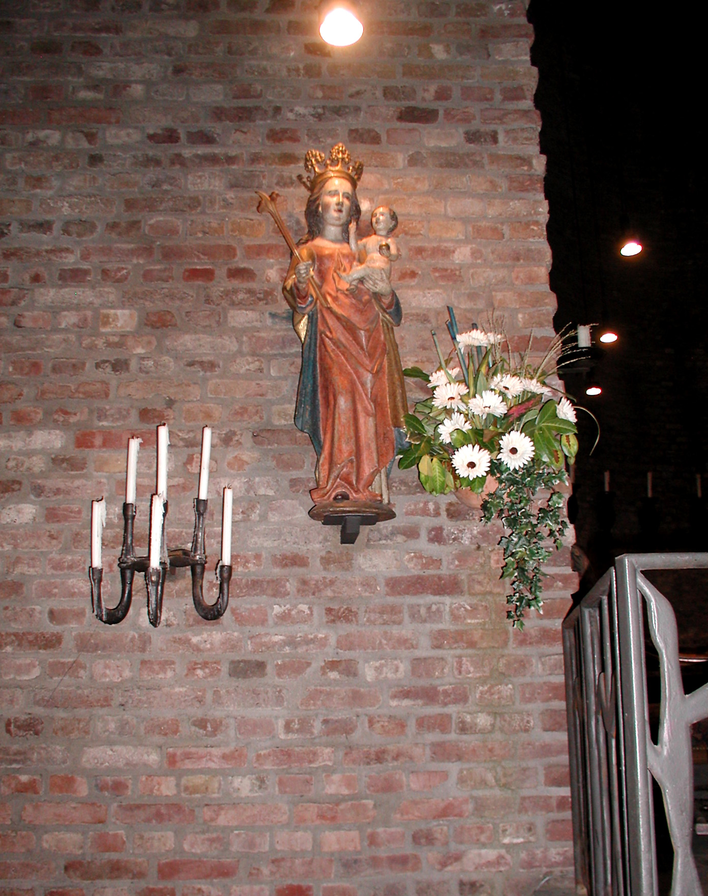 Cologne, interior of church "Neu-St-Alban"